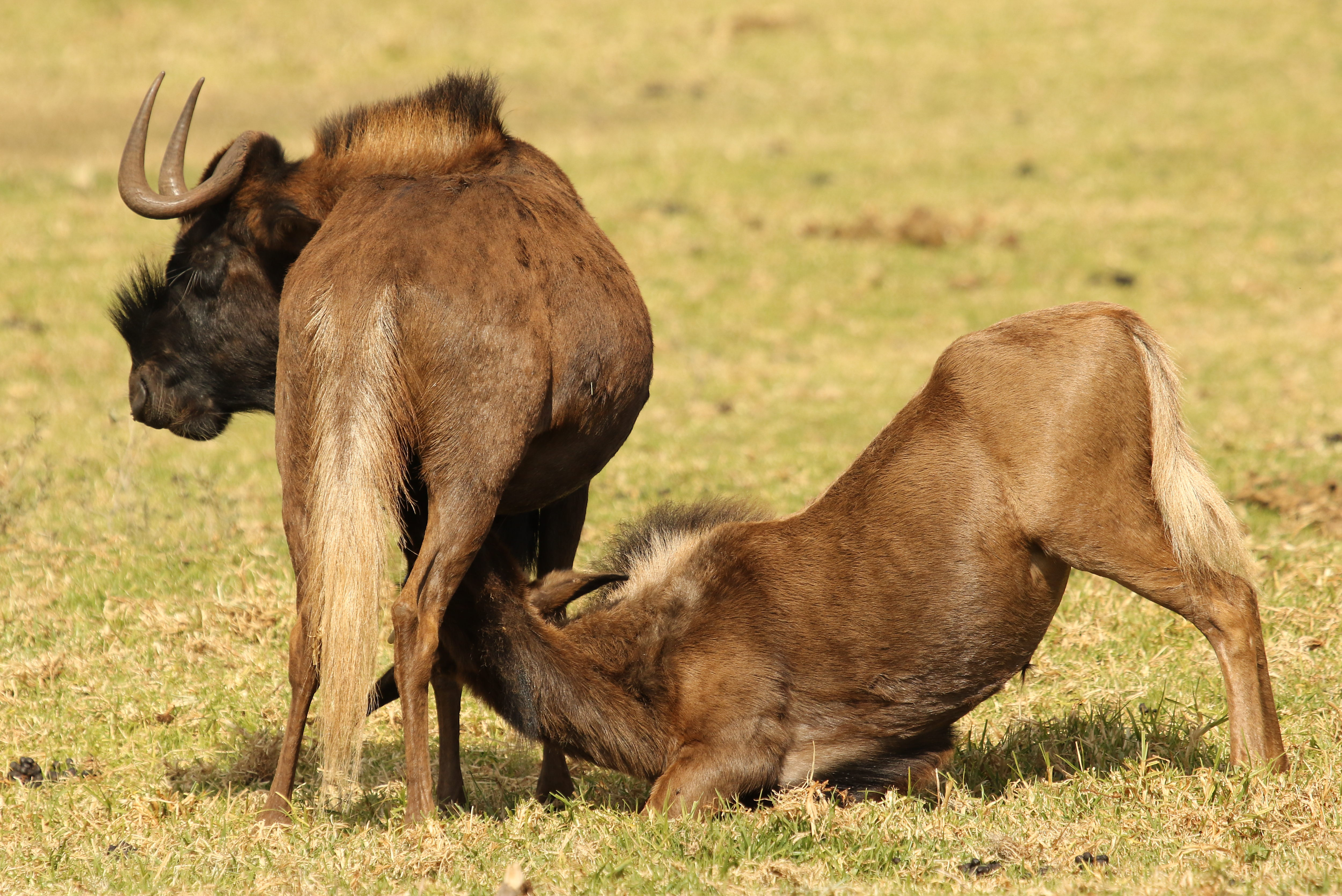 Black wildebeest, or white-tailed gnu, Connochaetes gnou at Krugersdorp Game Reserve, Gauteng, South Africa